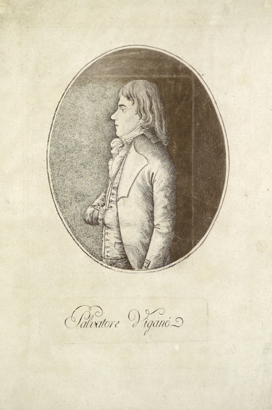 Portrait of Salvatore Viganò. Engraving.